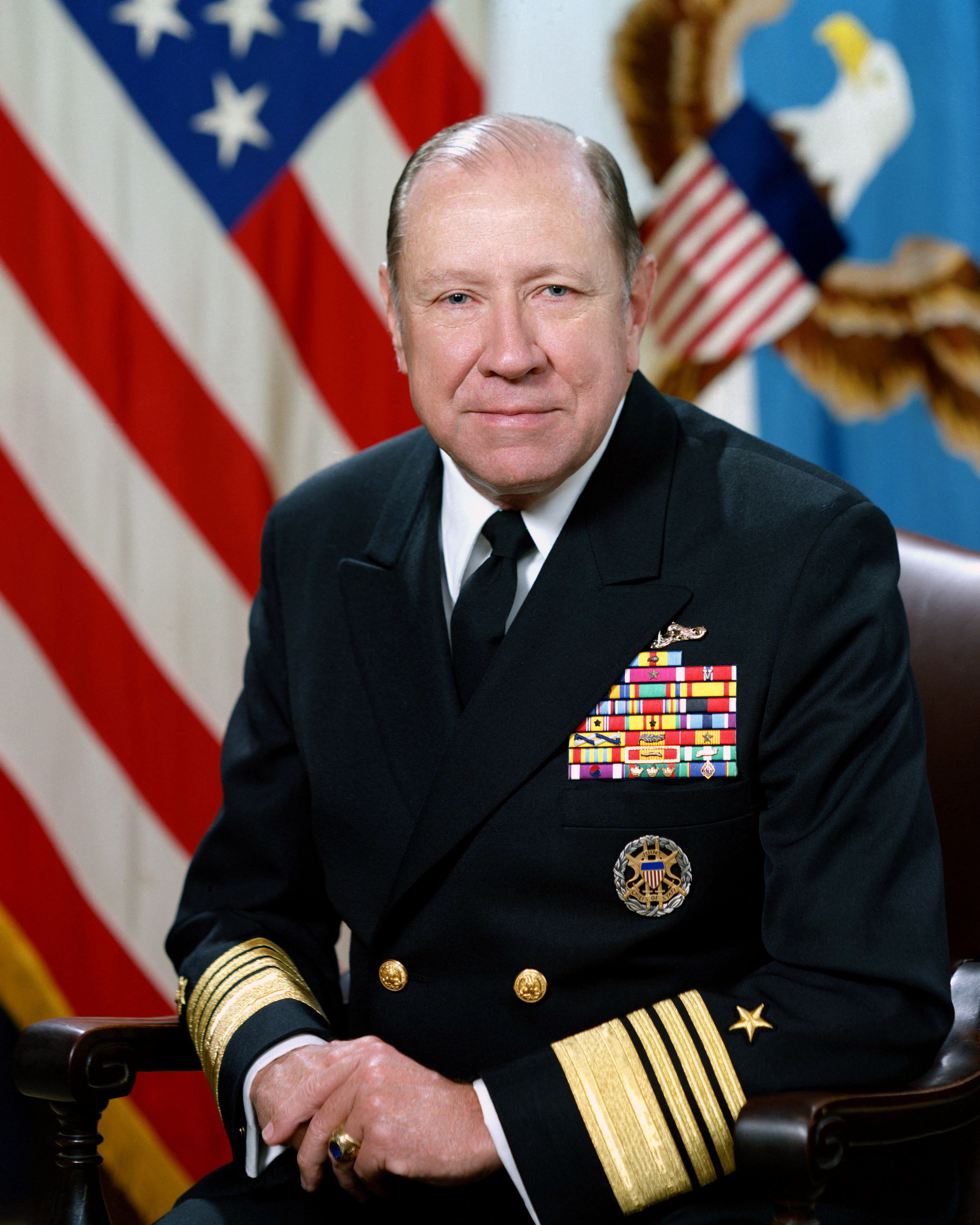 U.S. Navy ADM William J. Crowe Jr., former Chairman of the Joint Chiefs of Staff.